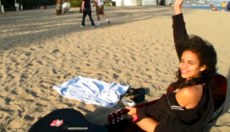 Alexandra Govere performing on a public beach in Malibu, CA.